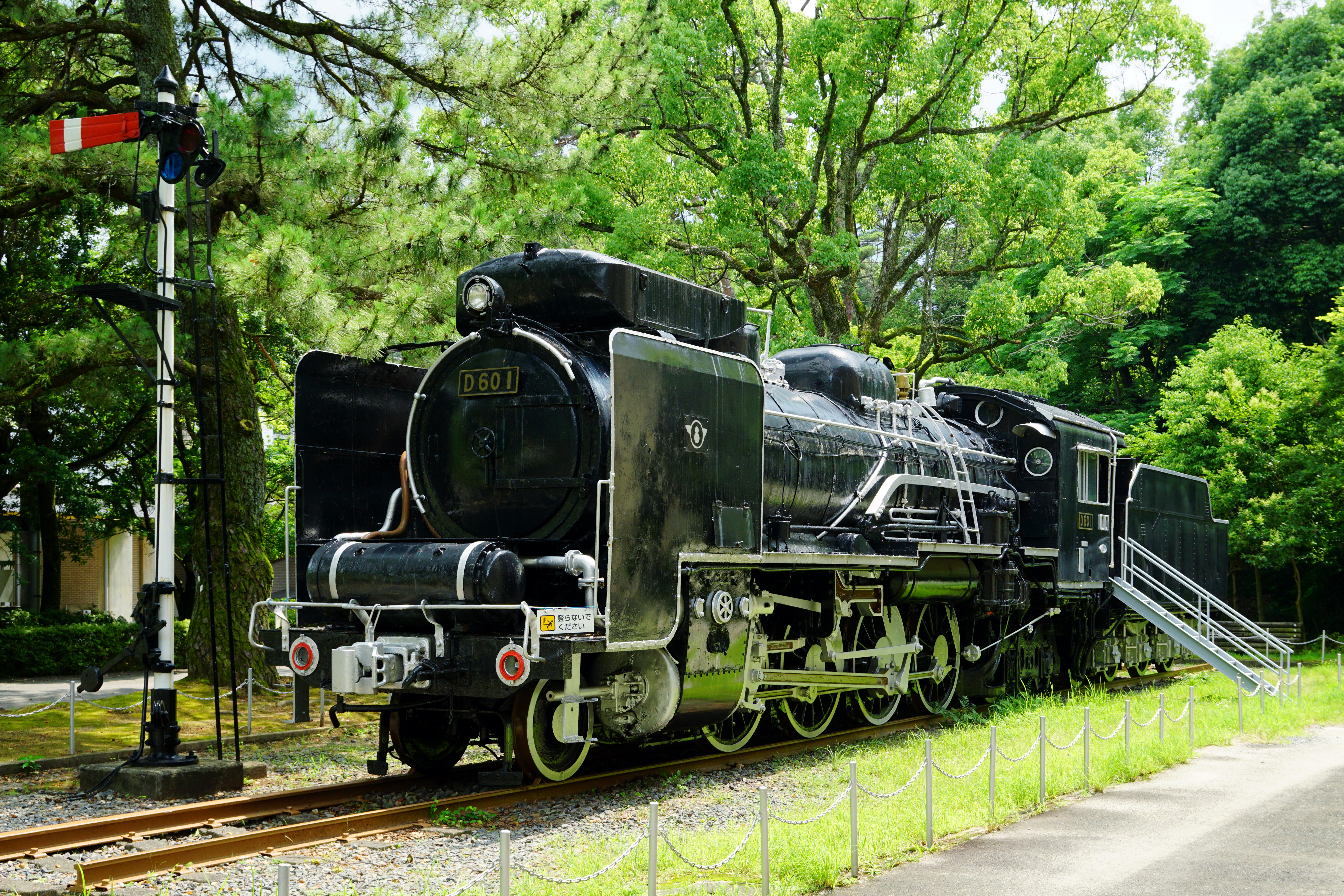 Preserved Class D60 steam locomotive D60 1 at the Yamaguchi Prefectural Yamaguchi Museum in Yamaguchi, Yamaguchi Prefecture, Japan